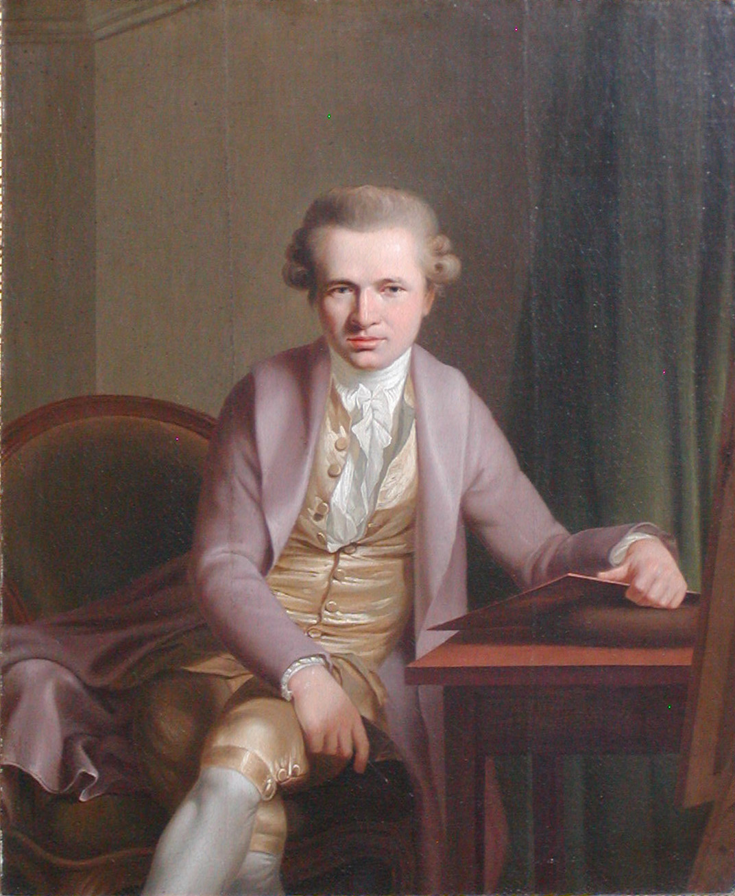 Portrait of Johan Frederik Clemens (1749-1831), Danish engraver